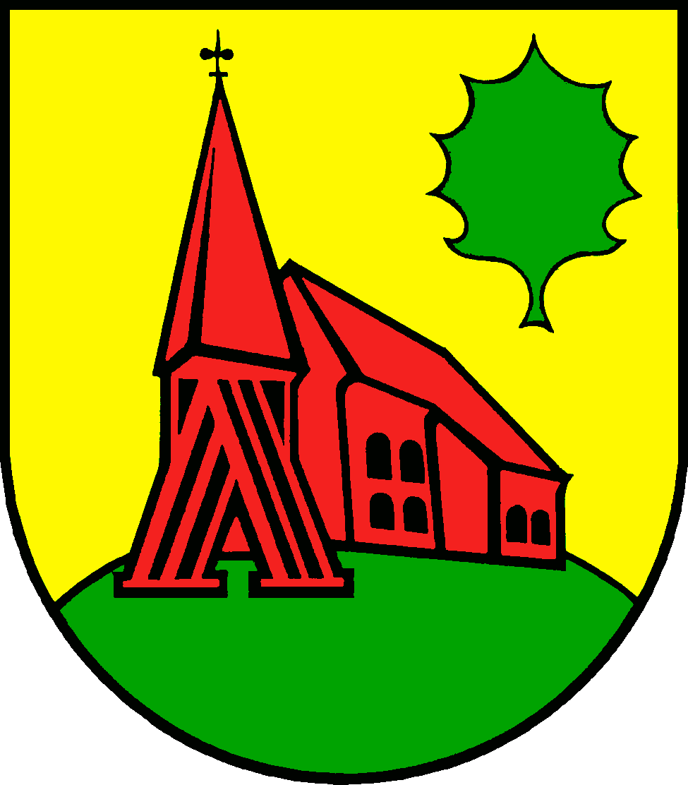 Coat of arms of the municipality Hohenaspe in Schleswig-Holstein, Germany.